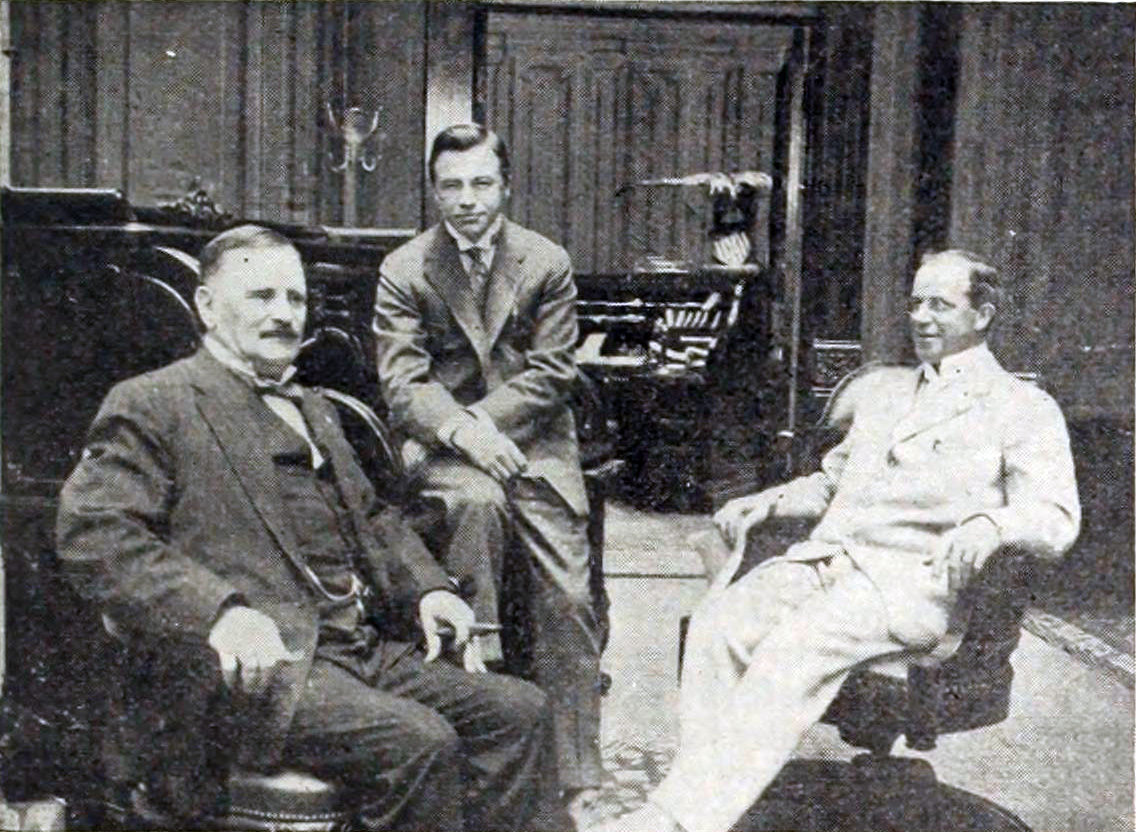 William T. Rock, Albert E. Smith, and J. Stuart Blackton. Illustration of an article in The Moving Picture World